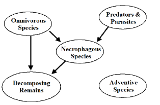 Describing the relationships between carrion insect trophic specializations and decomposing remains, adapted and simplified from K.G.V. Smith, A Manual of Forensic Entomology, 1986